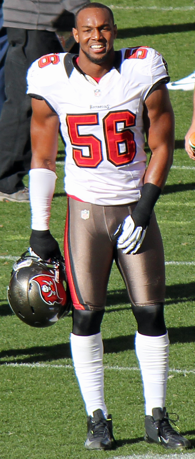 Dekoda Watson, a player on the National Football League.